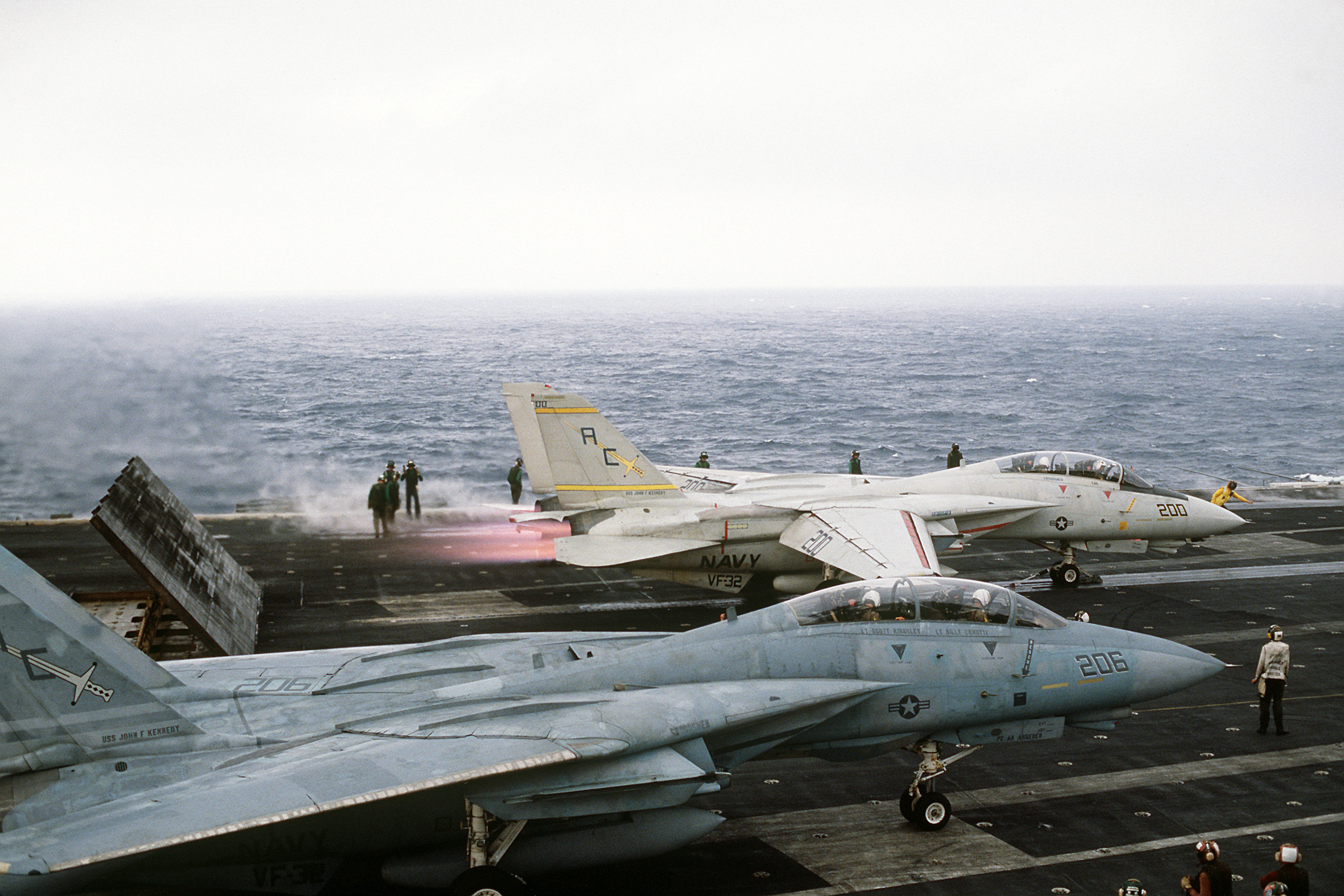 A Fighter Squadron 32 (VF-32) F-14A Tomcat aircraft fires its afterburner in preparation for launch from the aircraft carrier USS JOHN F. KENNEDY (CV-67). The ship is participating in NATO Exercise Display Determination '86.